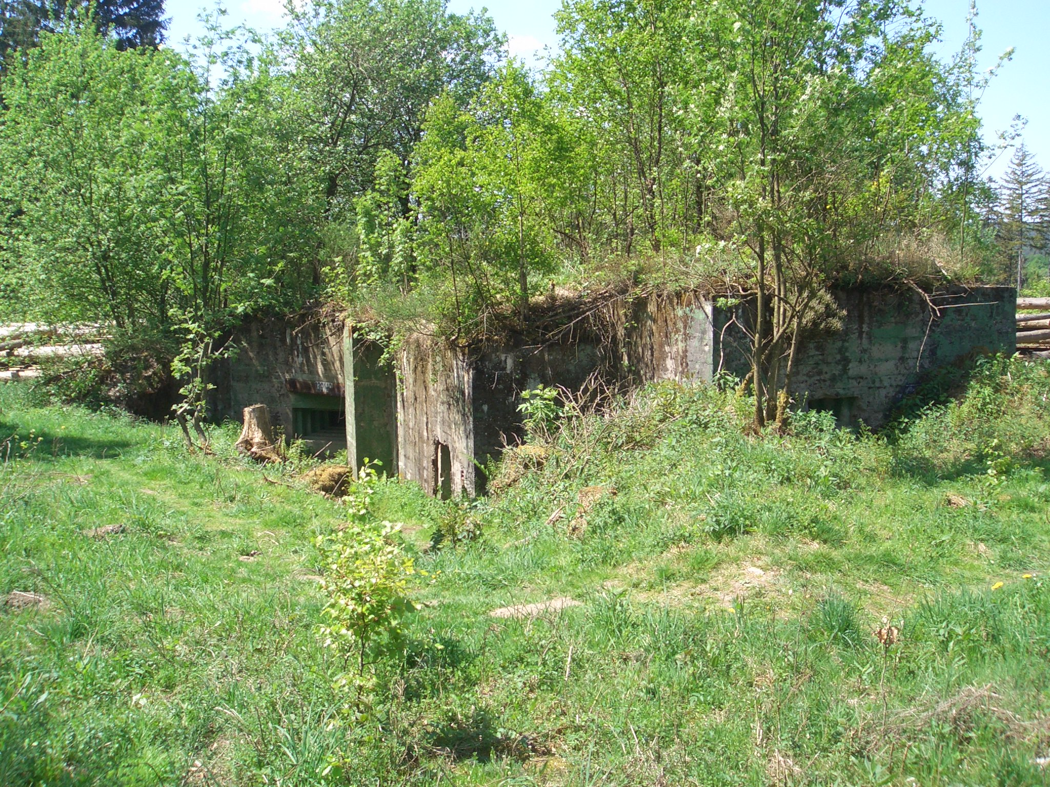 Bunker 139/140 of Siegfried Line at the Buhlert in the northern Eifel. The bunker is of type 11 and a shelter for two groups with MG room.